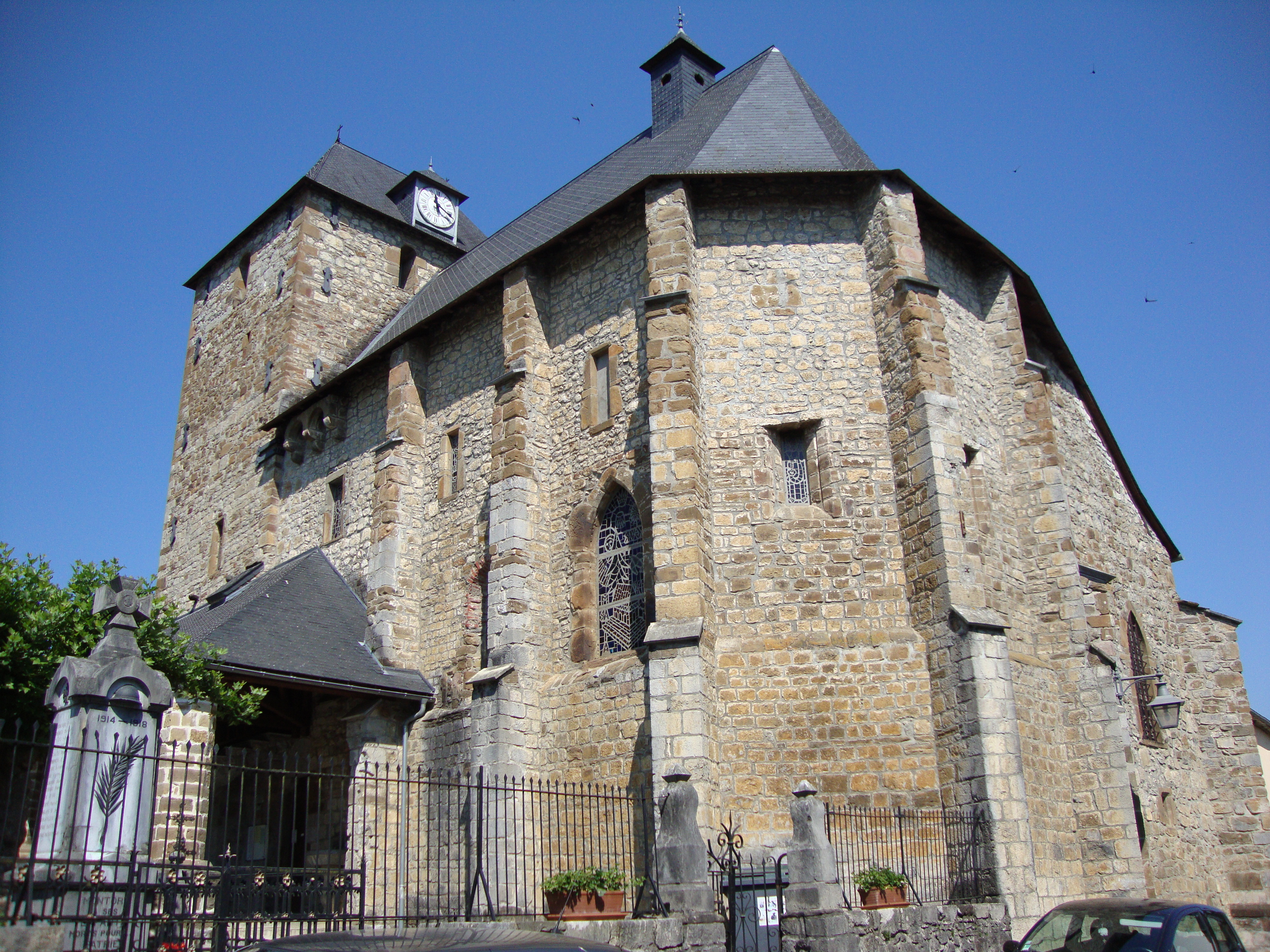 Montory (Pyr-Atl, Fr) church, the apse.